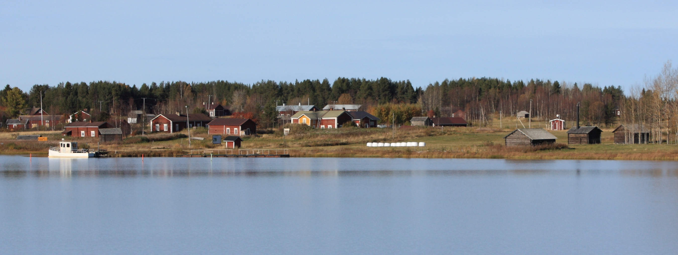 Suvanto village by Kitinen river in Pelkosenniemi, Finland.